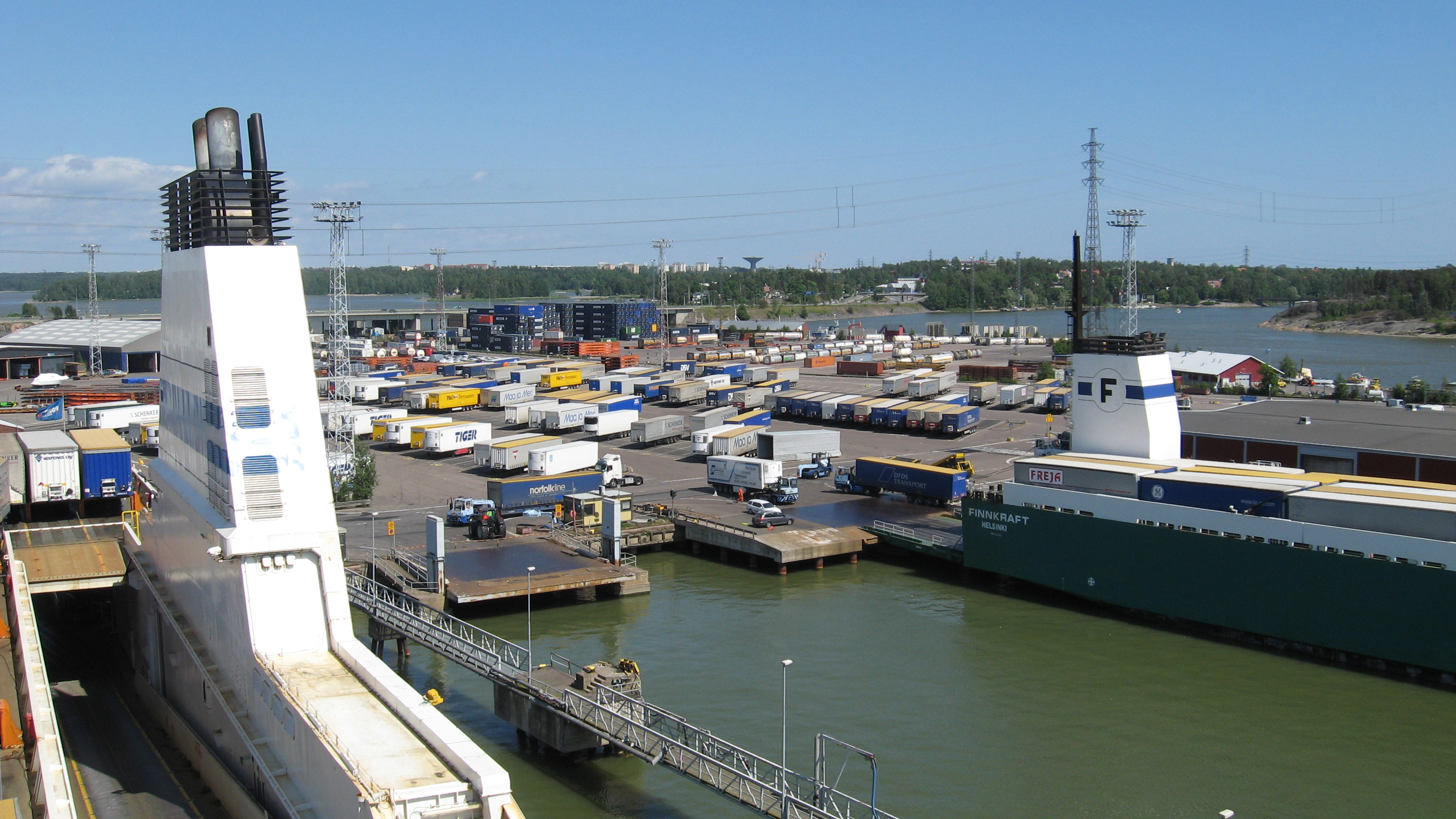 Sörnäinen harbour in Helsinki, Finland. Picture was taken from the deck of Finnish cargo ship M/S Finnmaid.